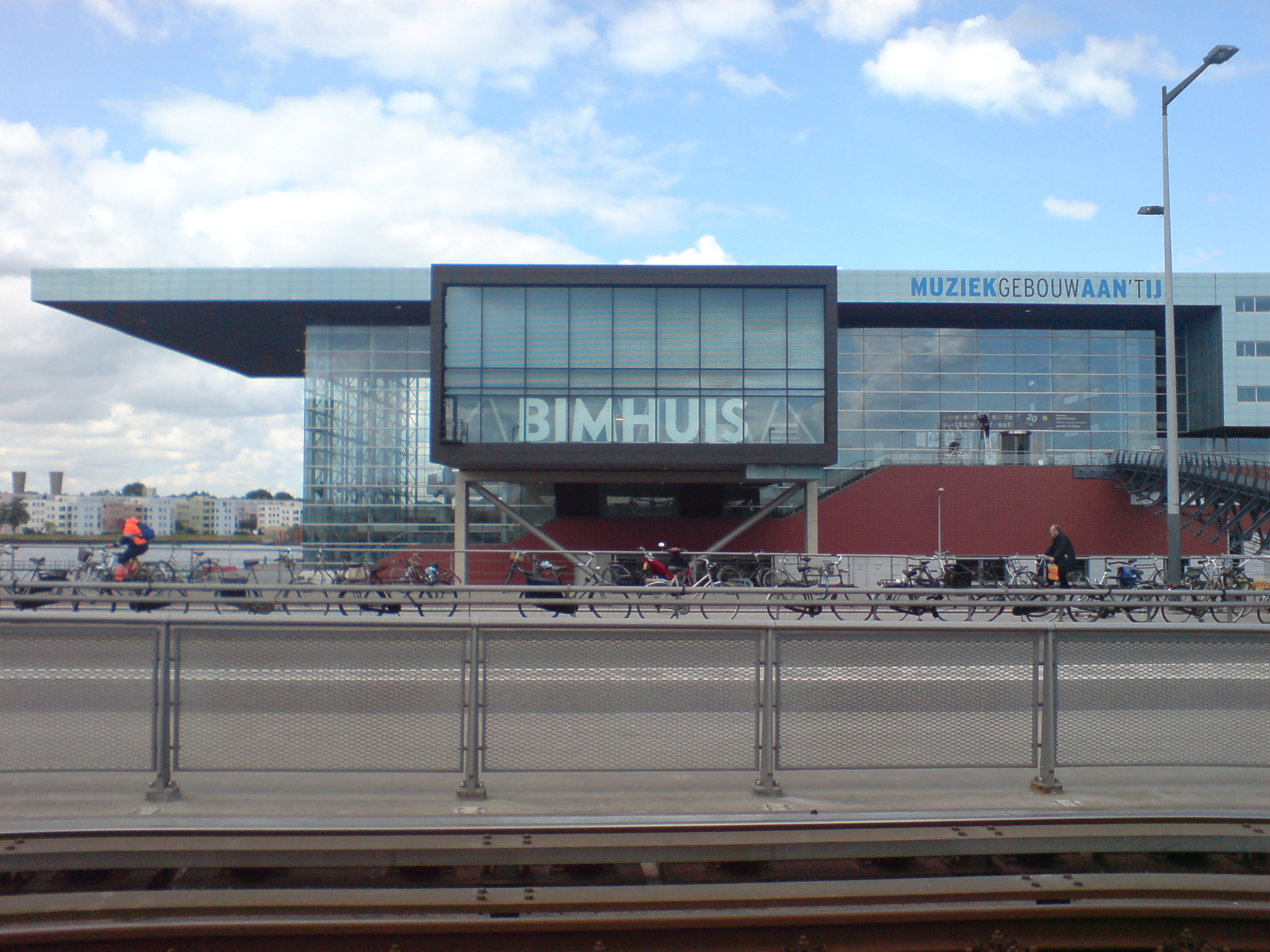 Photo of the Bimhuis in Amsterdam